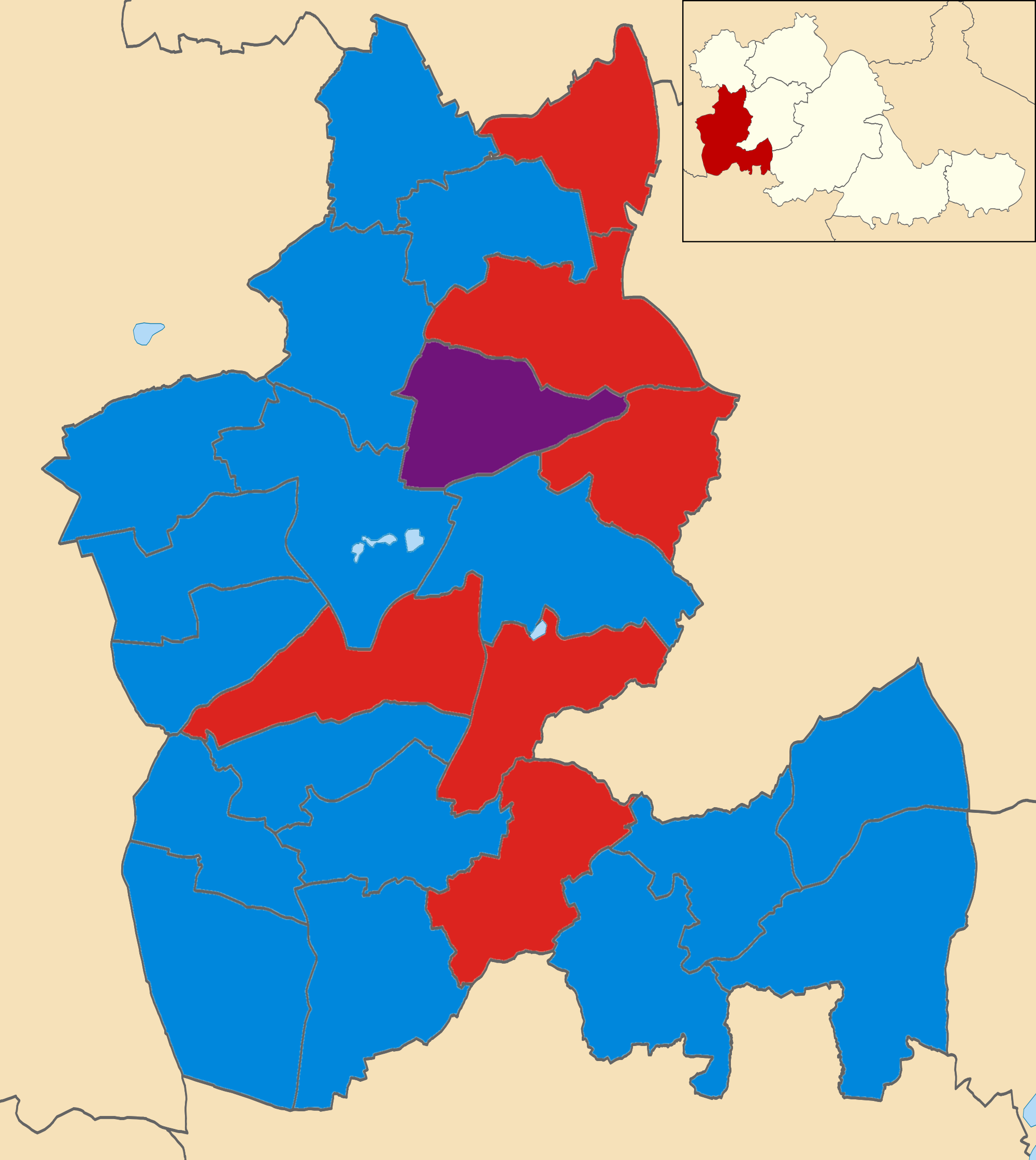 Results of the 2008 local elections in Dudley Colours: Conservative Labour UKIP